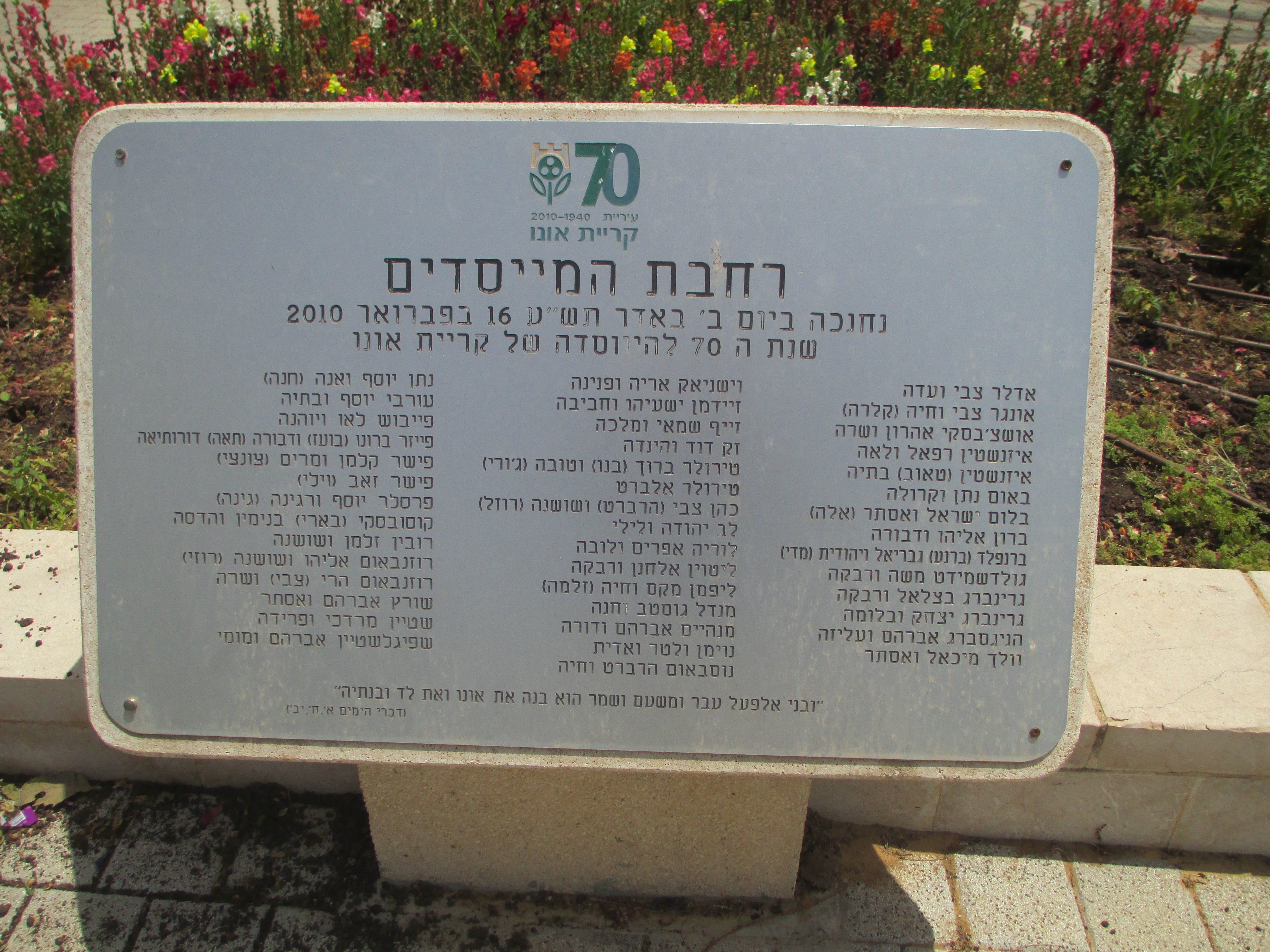 Founders square in Kiryat Ono